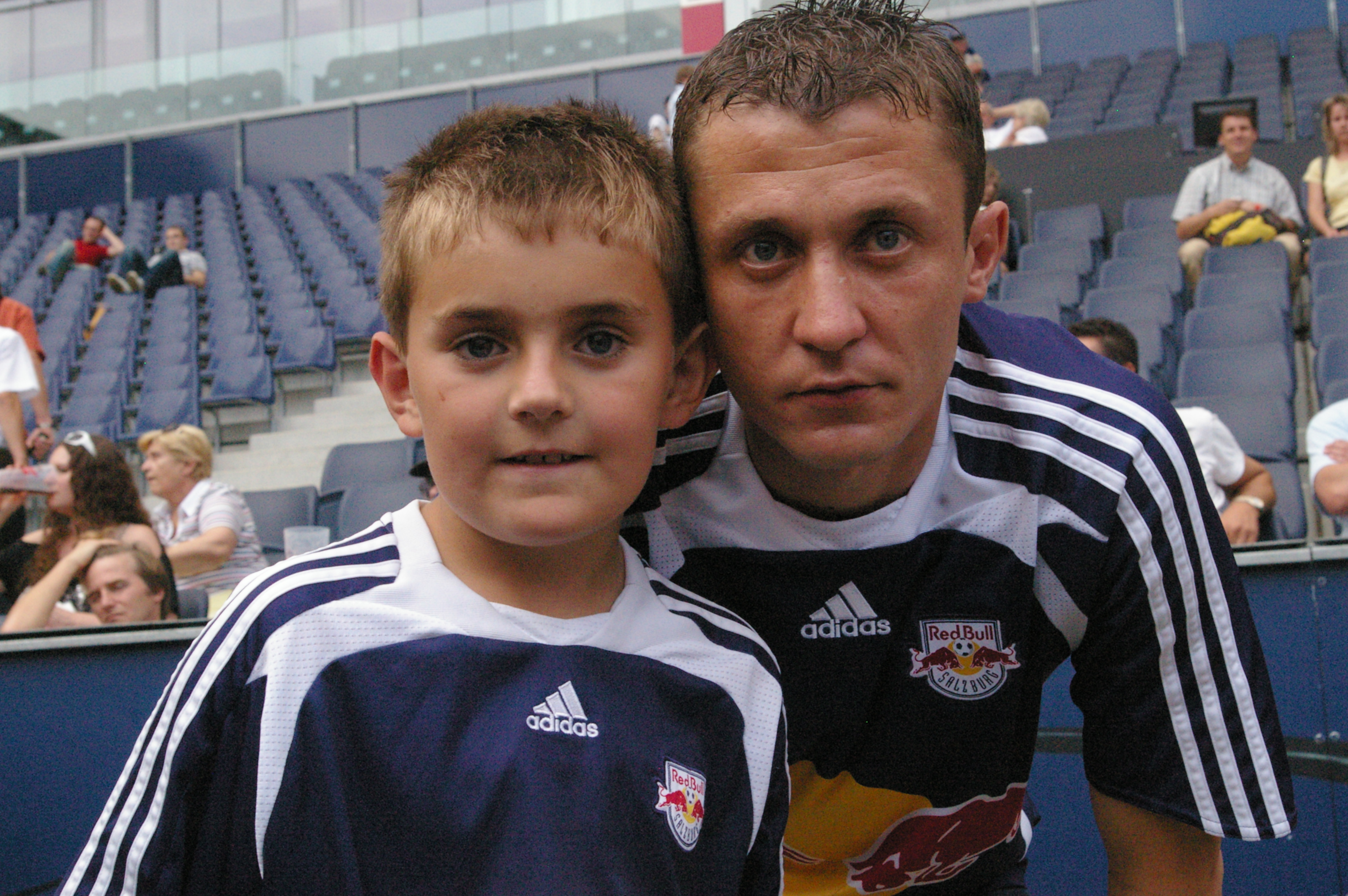 Sasa Ilic midfielderred Bull Salzburg